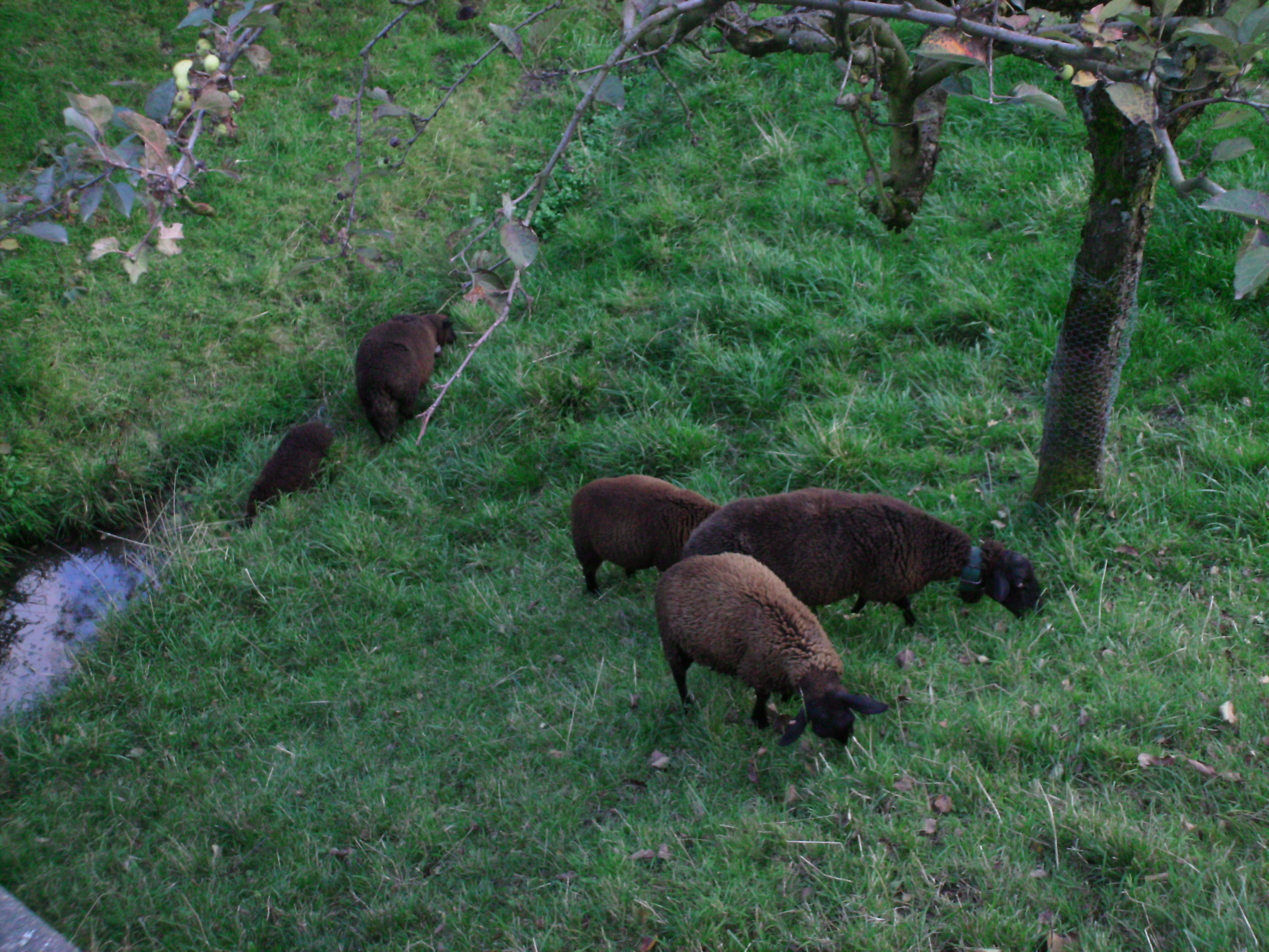 Sheep's meal near a river, "Noire du Velay" race